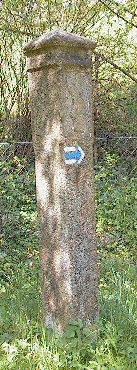 Historic road sign - braking stone in Staré Sedlo, part of Orlík nad Vltavou municipality, Písek District, South Bohemian Region, Czech Republic